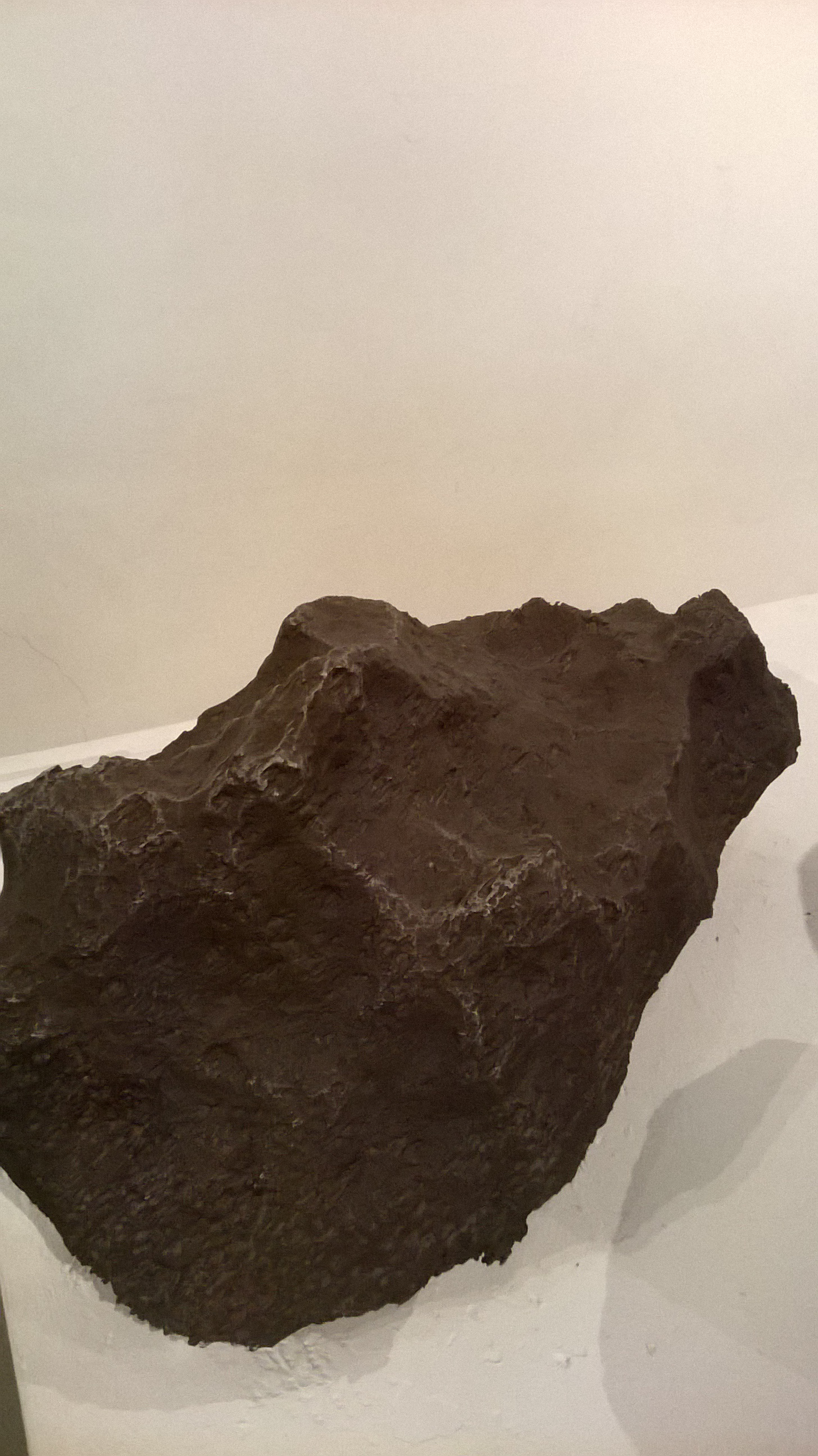 Dronino meteorite